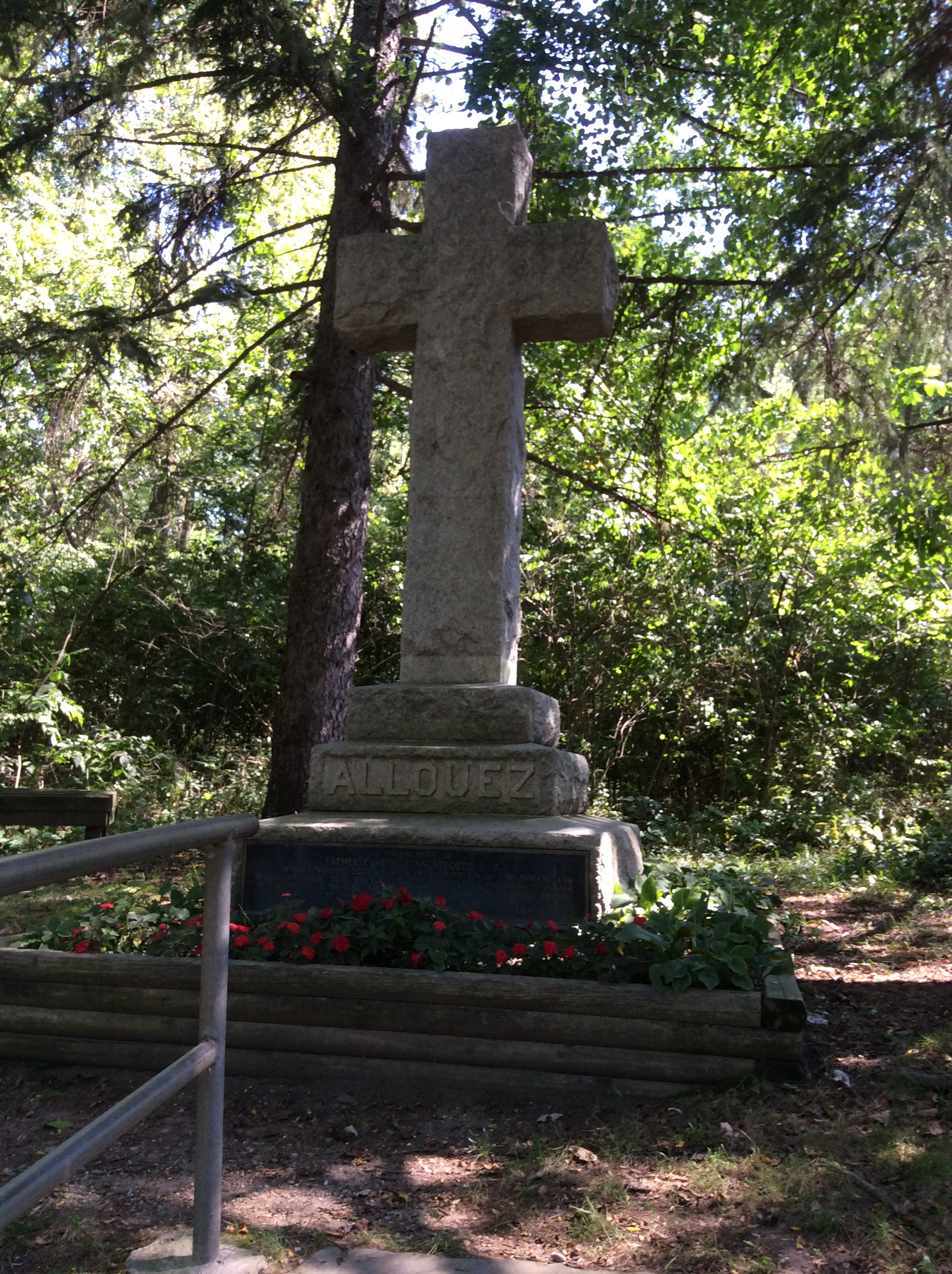 Memorial erected by the Woman's Progressice League of Niles, Michigan. 1918